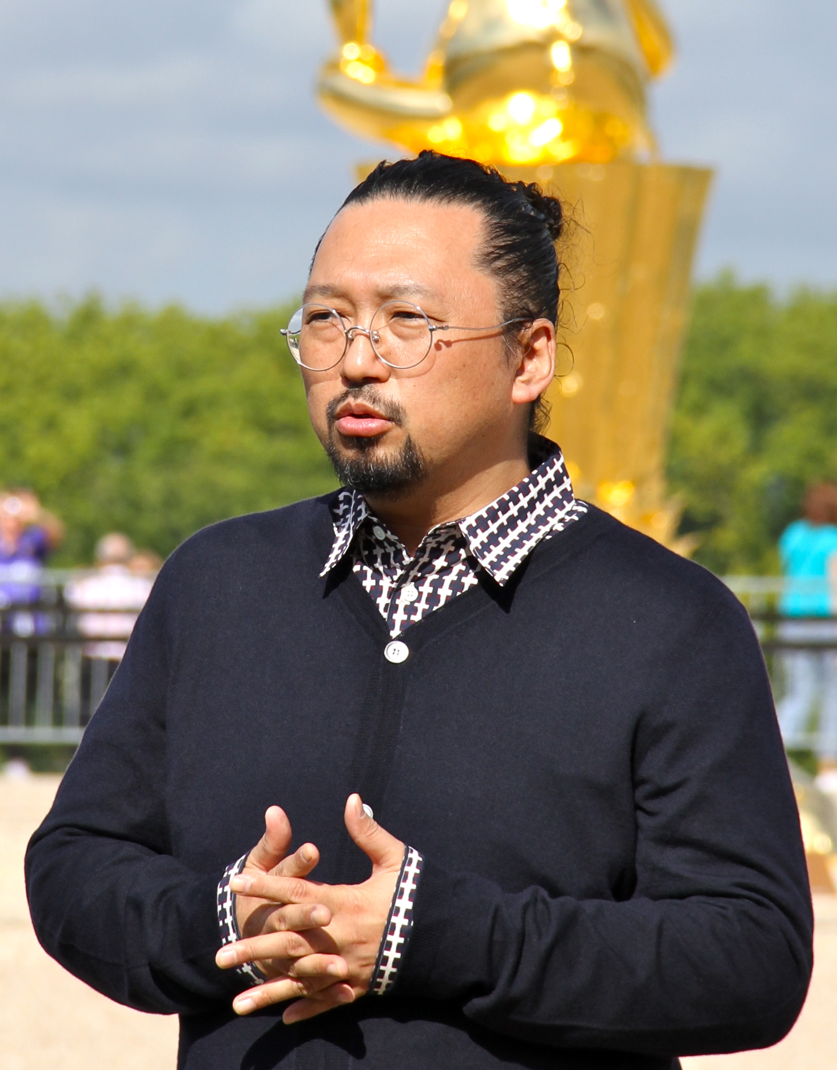 Japanese Artist Takashi Murakami at the Palace of Versailles giving an interview to a film crew about his new exhibit 10th of September 2010